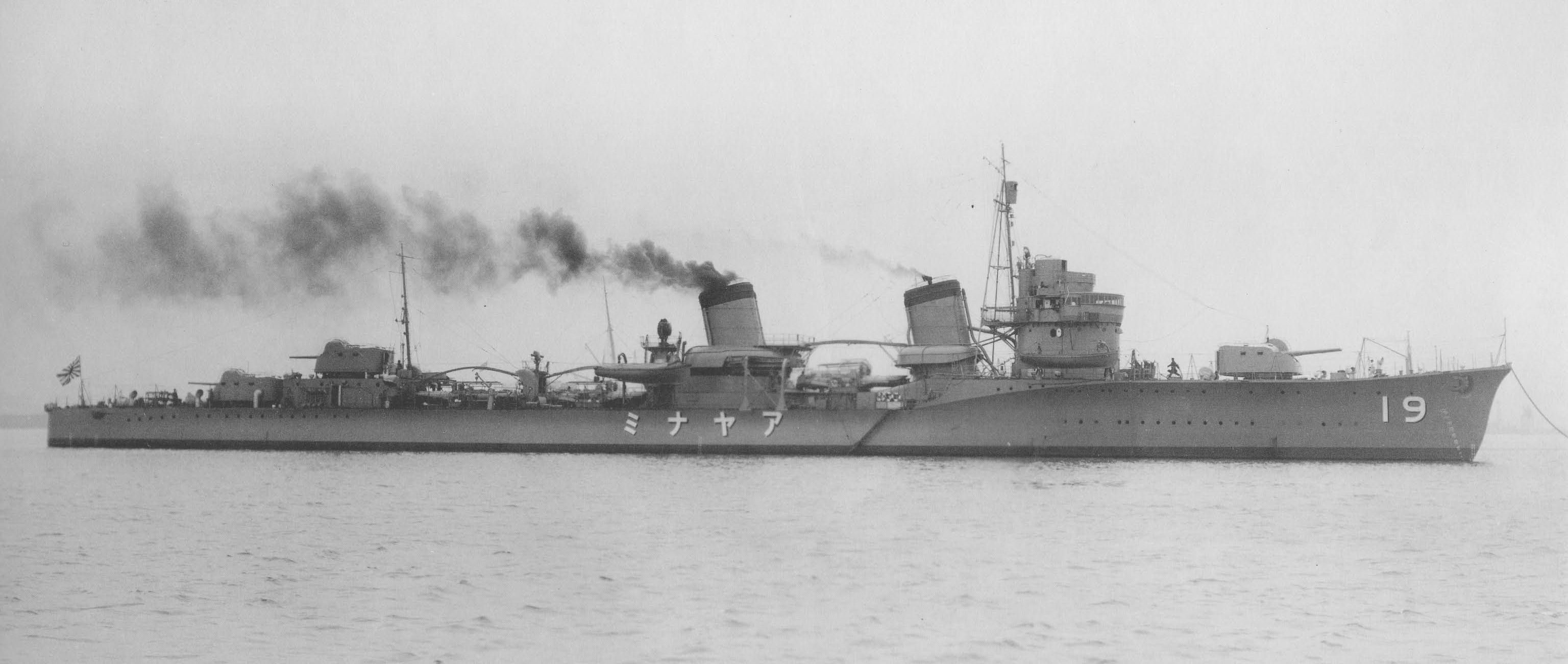 Imperial Japanese Navy destroyer Ayanami, the second Japanese warship to bear that name, in April 1930.